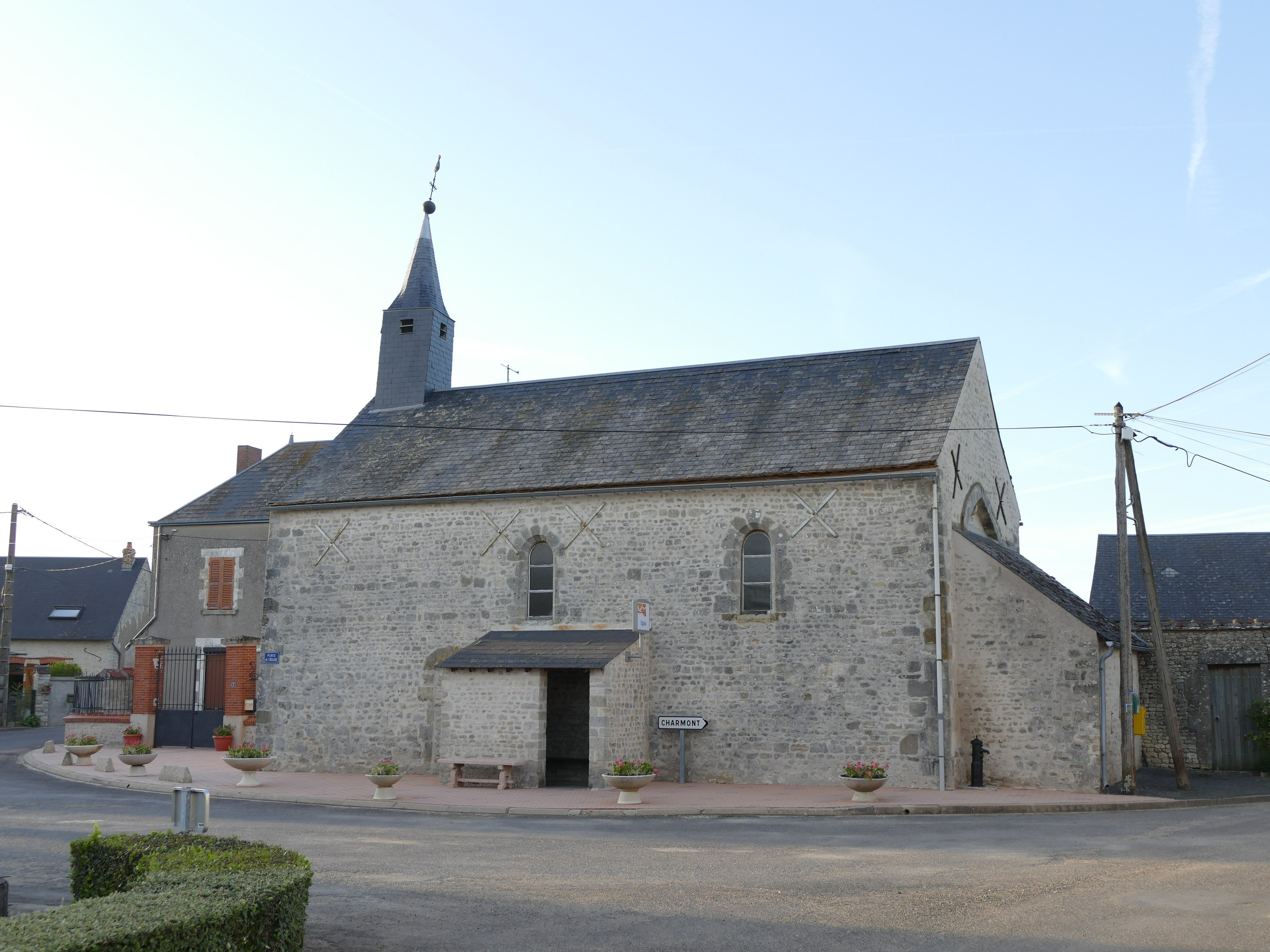 Sainte-Catherine's church in Léouville (Loiret, Centre-Val de Loire, France).